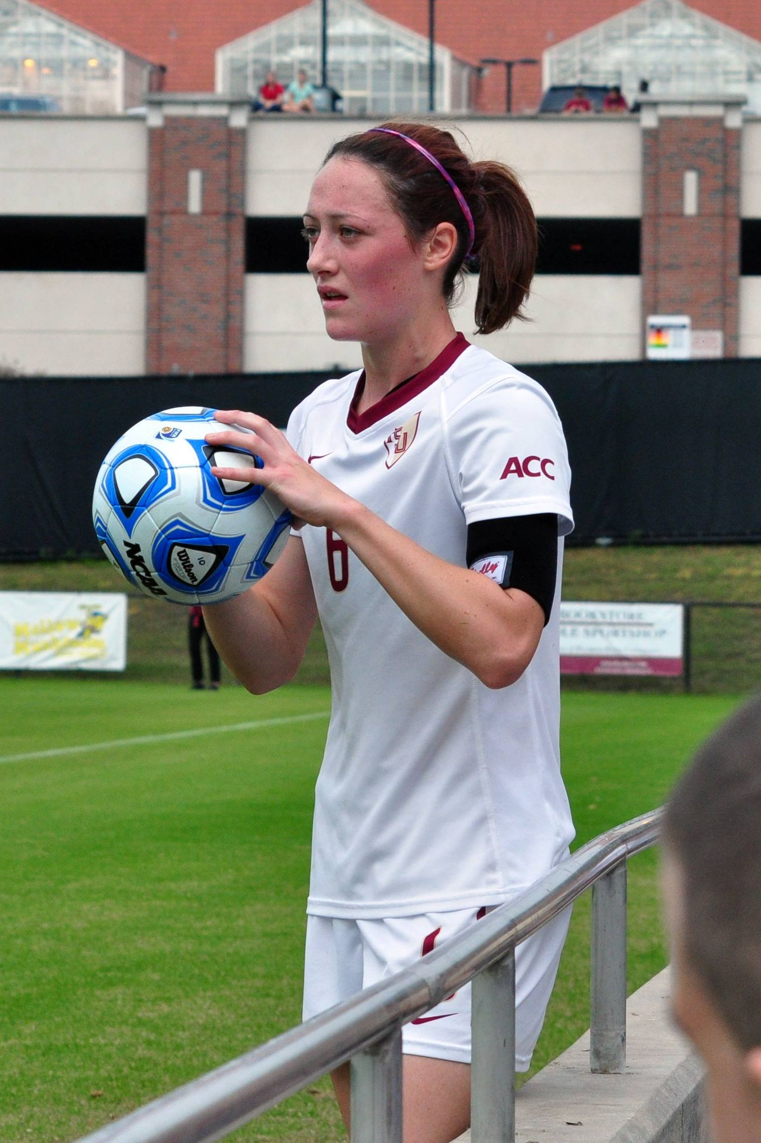 Defender Megan Campbell - from Drogheda, County Louth, Ireland